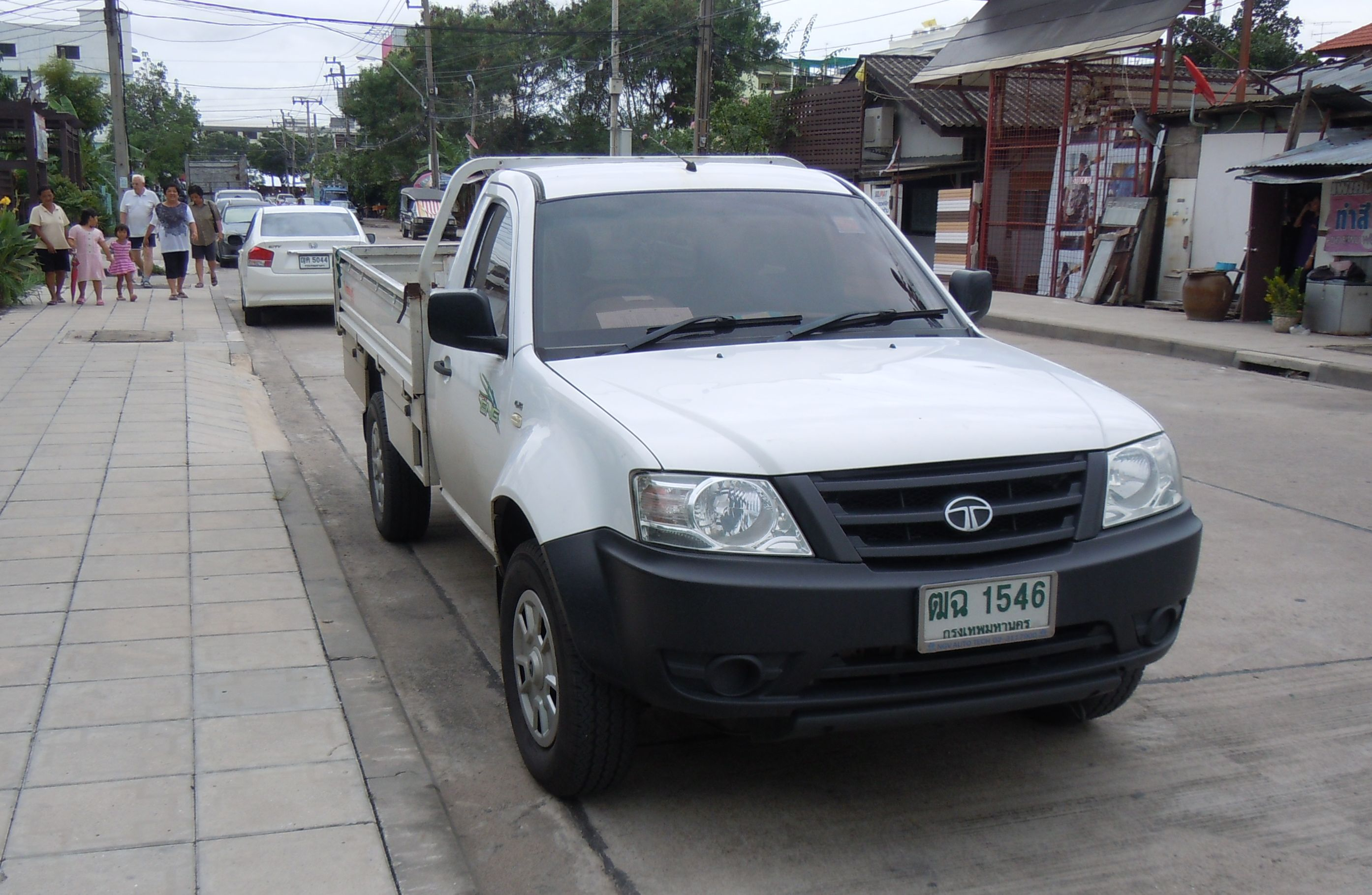 TATA XENON PICK UP